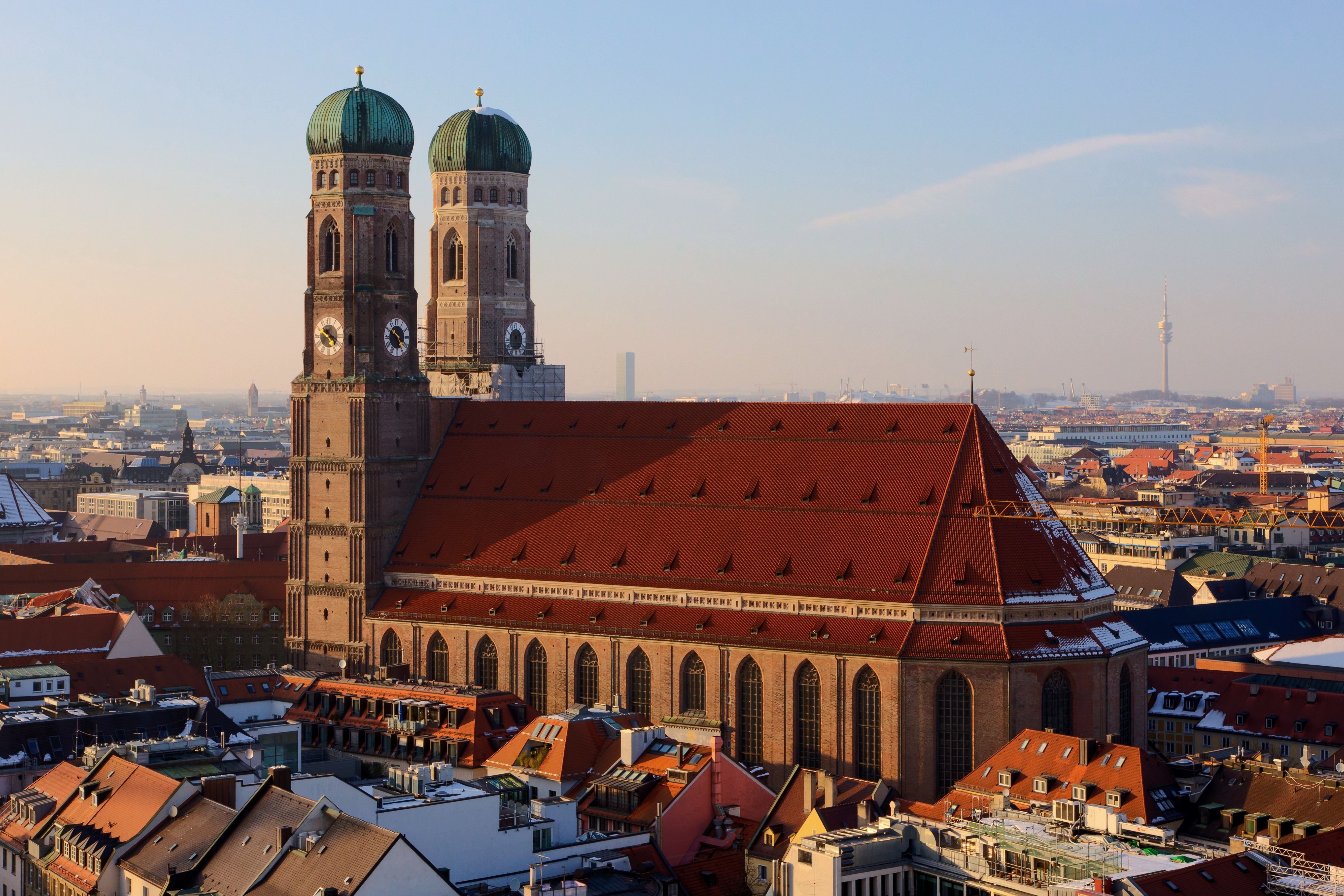 Munich Frauenkirche, March 2013